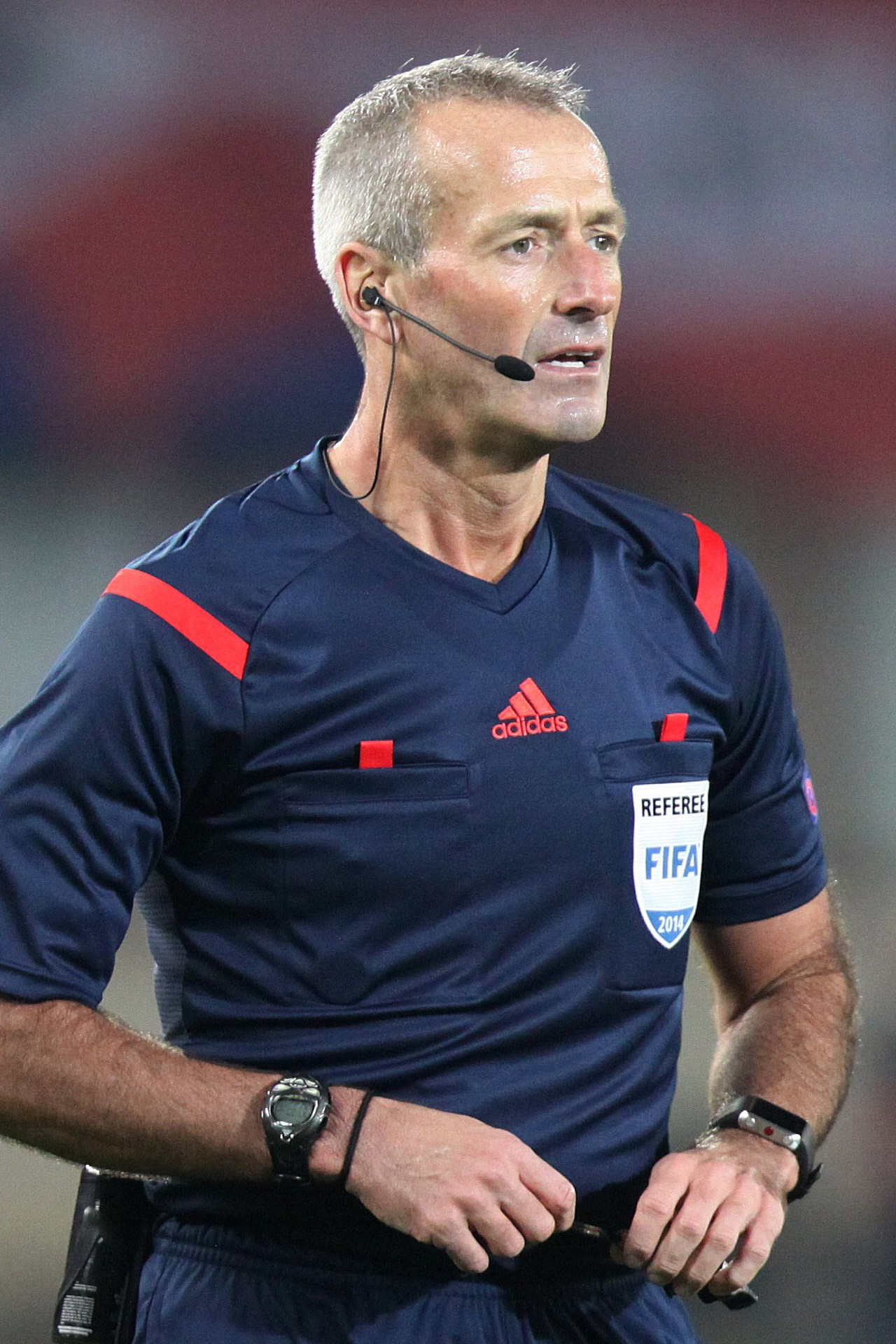 UEFA Euro 2016 qualifying: Austria vs. Russia (1:0 / 0:0) at 2014-11-15 in the Ernst-Happel-Stadion in Vienna. – The photo shows referee Martin Atkinson (England).